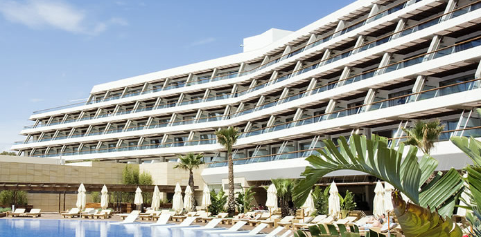 View of the pool and building, Gran Hotel, Ibiza, Spain